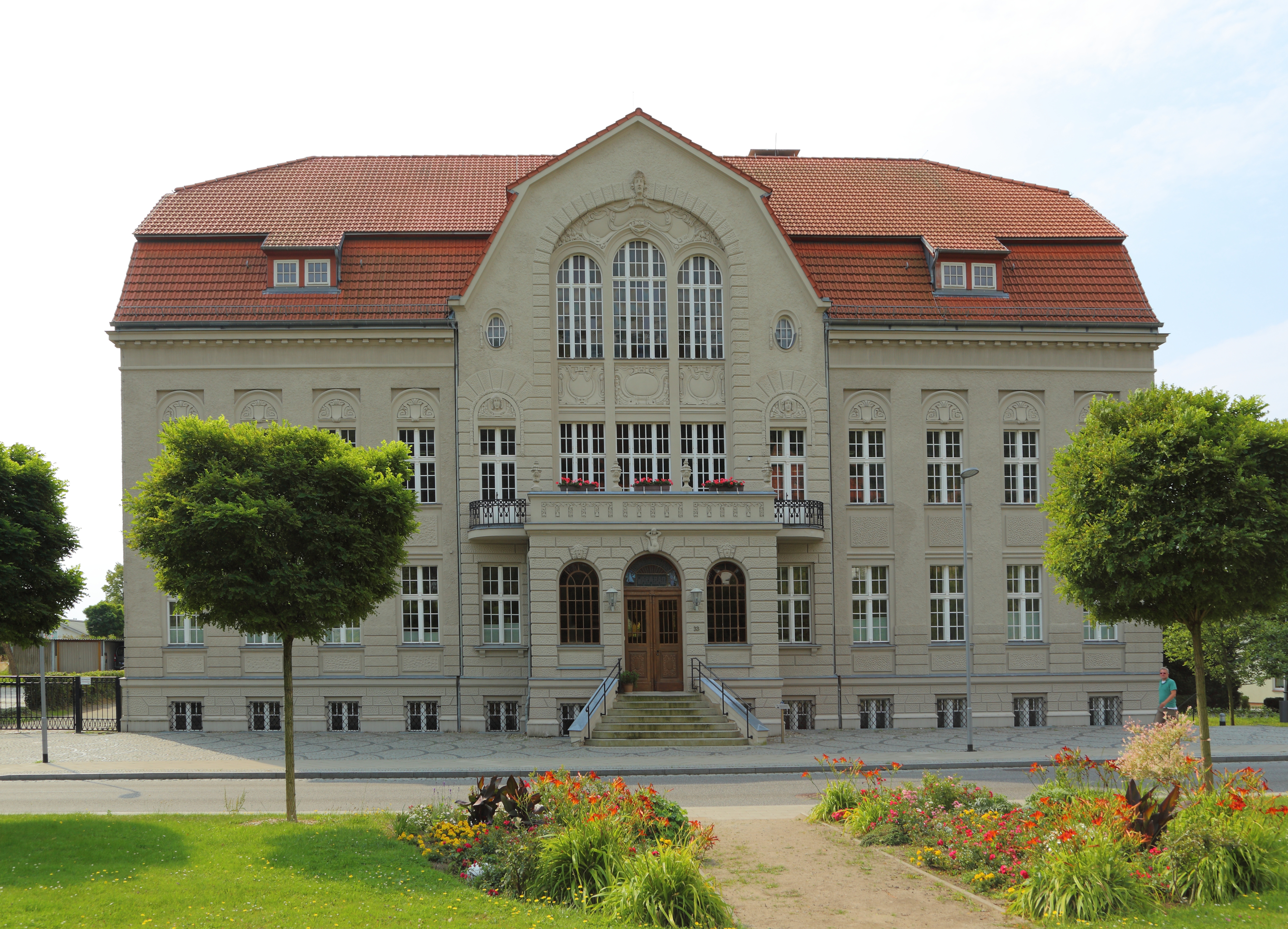 Sassnitz Town Hall, 33 Main Street (Hauptstraße 33) in Sassnitz, Landkreis Vorpommern-Rügen, Mecklenburg-Vorpommern, Germany. The former thermal bath is a listed cultural heritage monument.